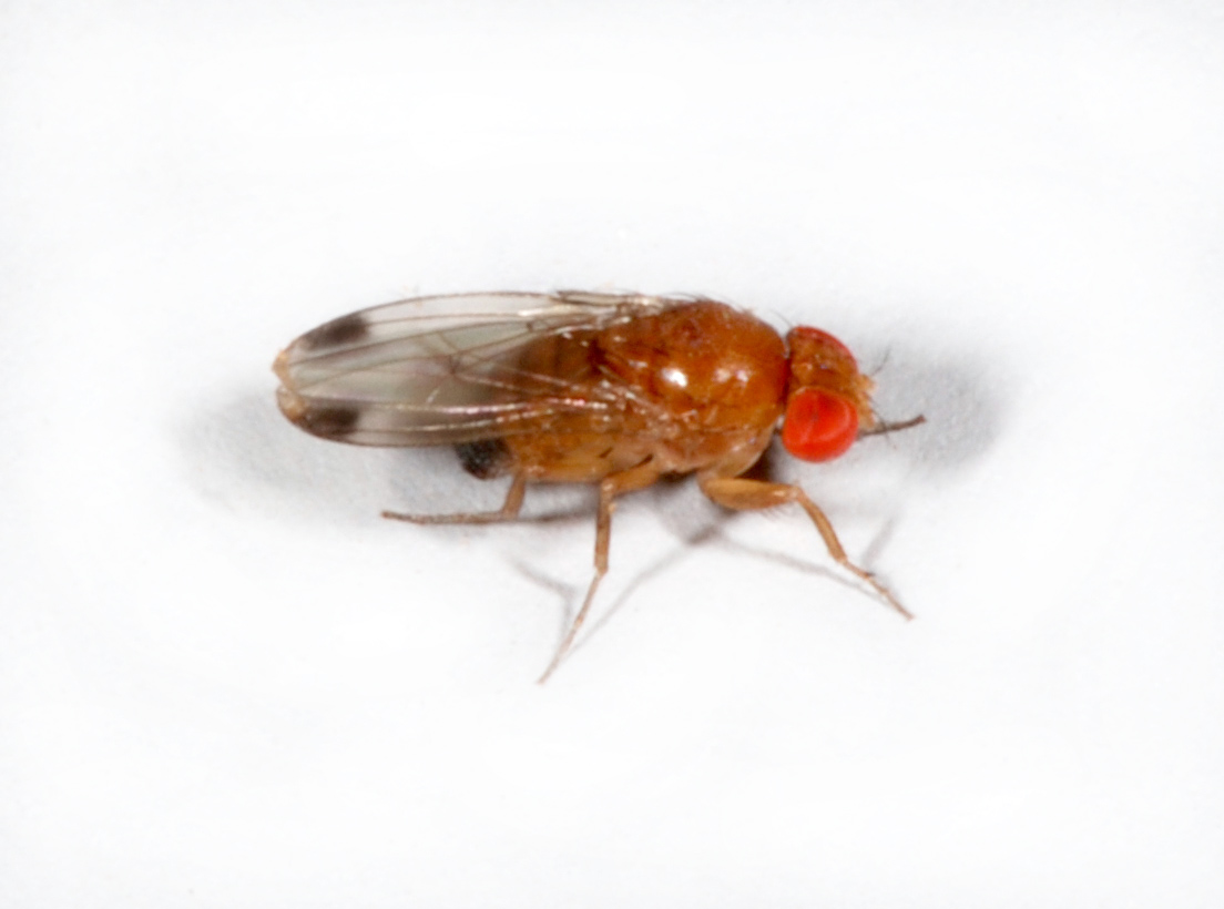 male of Drosophila suzukii. California